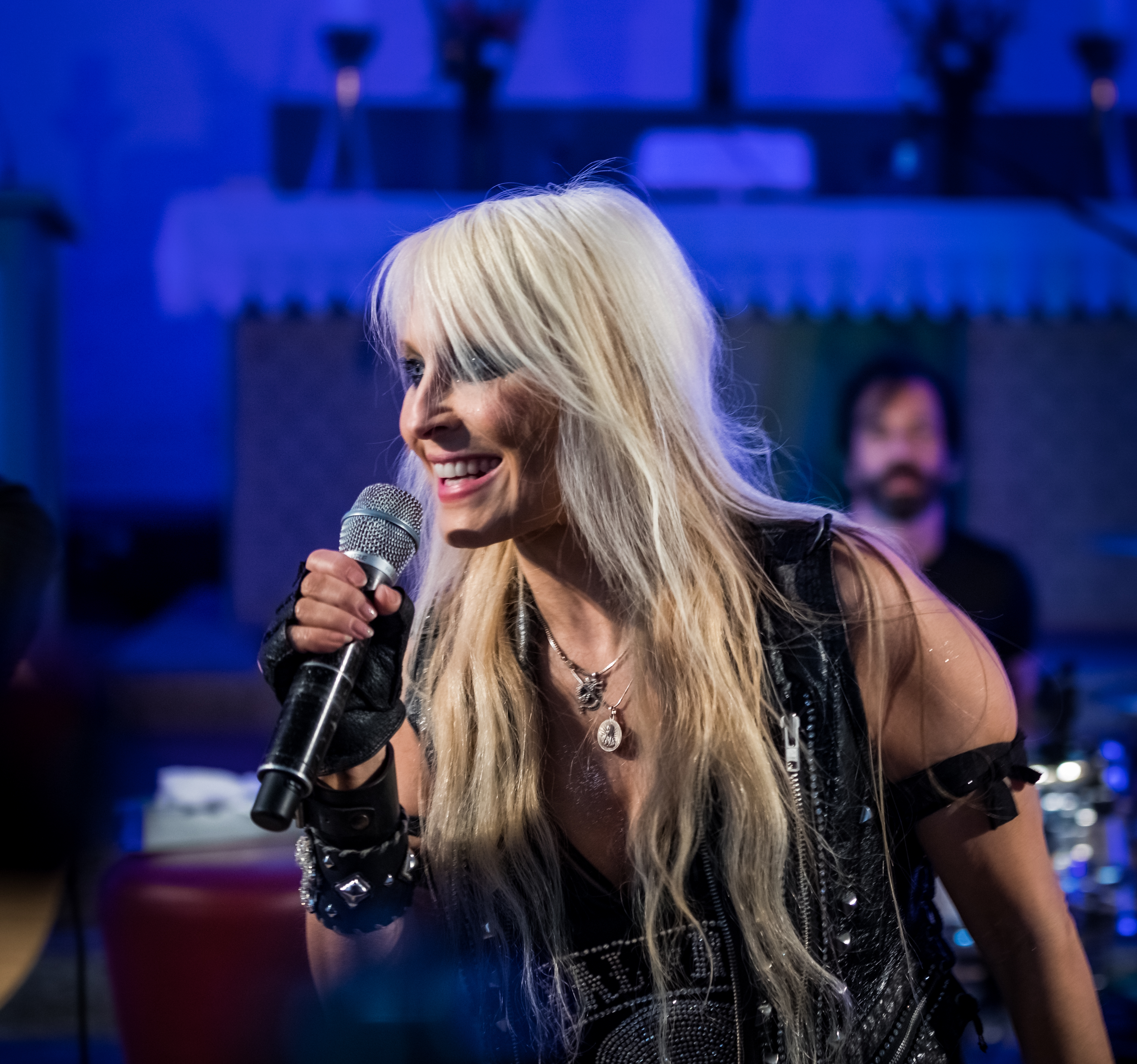 Doro live in der Metal Church - Wacken Open Air 2018